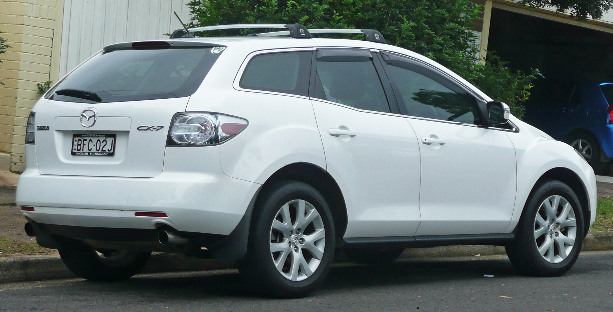 2006–2009 Mazda CX-7 (ER) Classic wagon. Photographed in Cronulla, New South Wales, Australia.